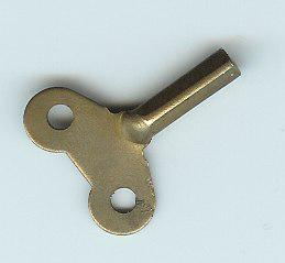 Key used to wind a mainspring in a clock